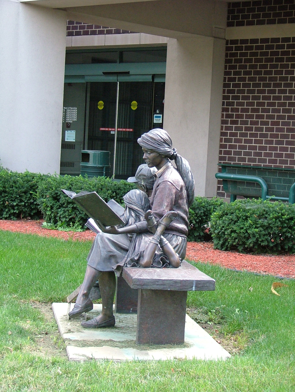 Statue at the entrance of the Danville Public Library (Illinois)